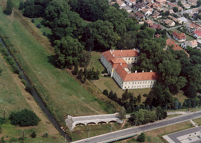 Zalaszentgrót, Hungary, aerialphotography (Batthyány Mansion) This is a photo of a monument in Hungary. Identifier: 11110